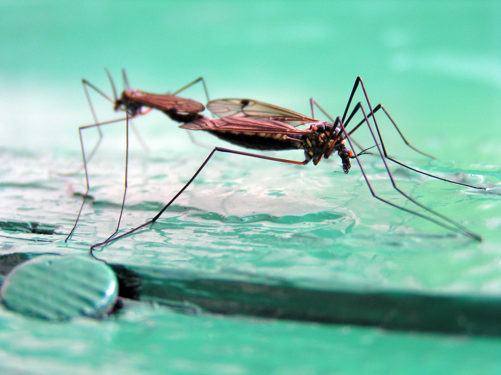 Coupling crane flies.